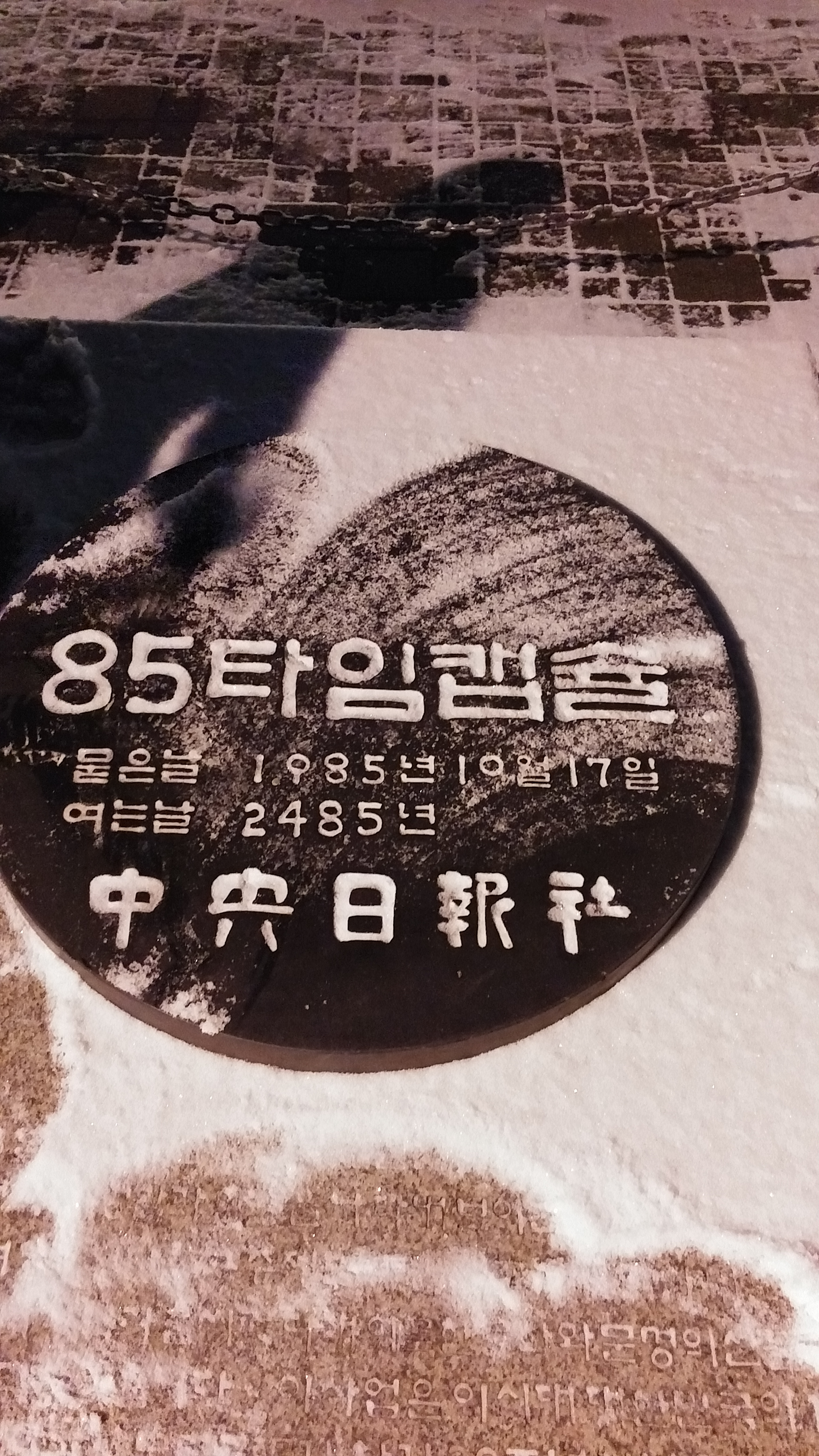 500 year time capsule at Seoul Tower on Namsan.